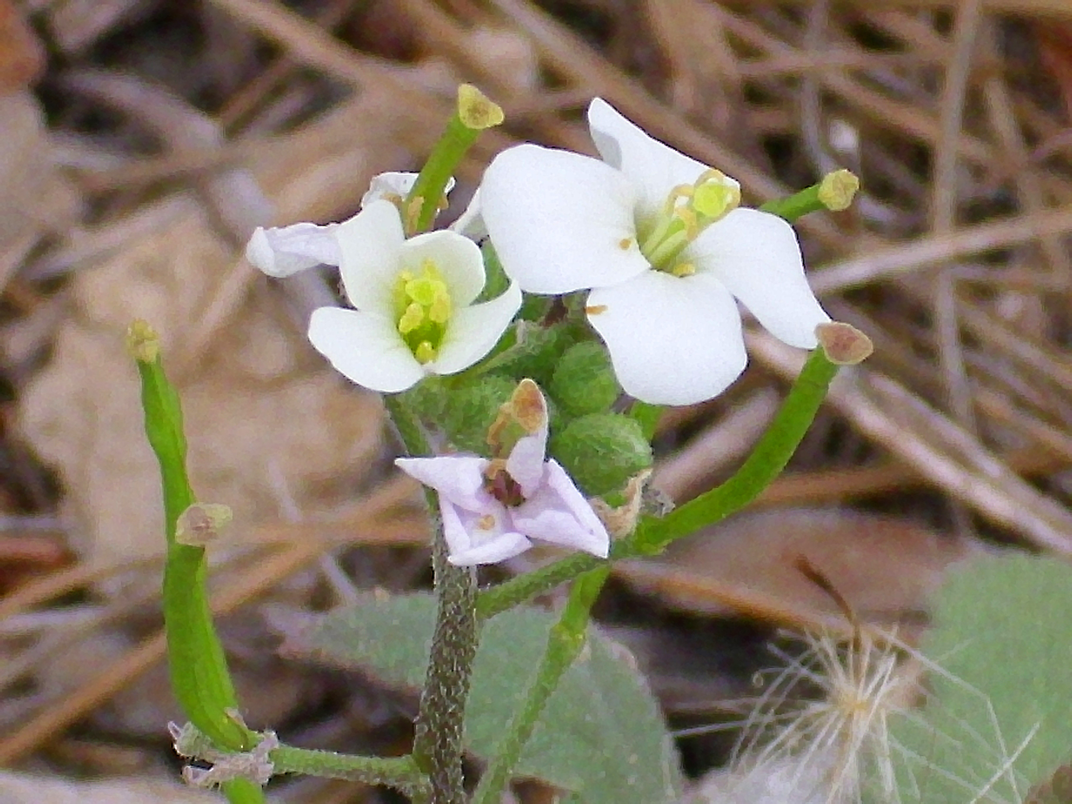 Diplotaxis erucoides flower close up, La Mata, Torrevieja, Alicante, Spain.